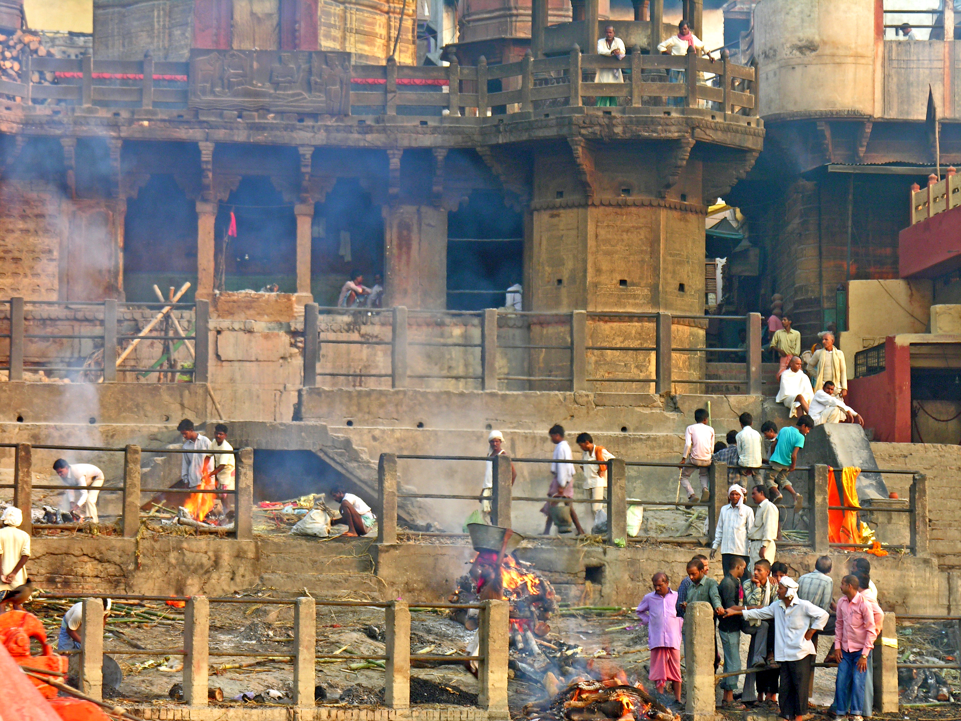 At each place there is a fire burning someone is being cremated, this happen day and night. Cremation takes place shortly after death. The eldest son makes the arrangements (women are not allowed at the site), the body is dipped into the Ganges after it dries, the wood is purchased and arranged and the body placed upon it for burning.